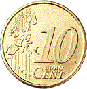 Common (or European) side of a €0.10 coin. It is copyrighted by the European Union.